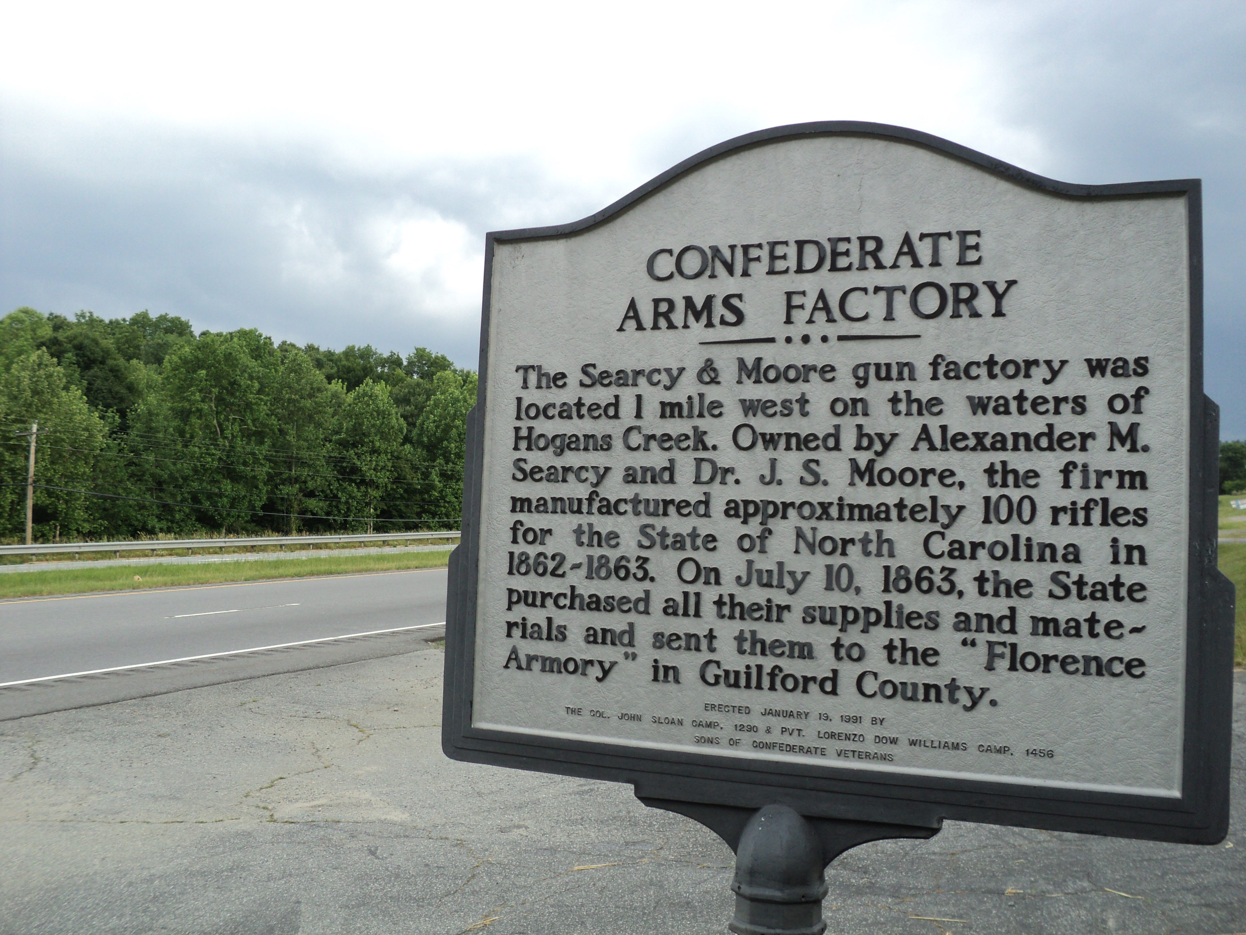 Historical sign for the Searcy & Moore gun factory located on Hogans Creek in Rockingham County, North Carolina. The firm supplied rifles to the Confederate state of North Carolina from 1862–1863 during the American Civil War.